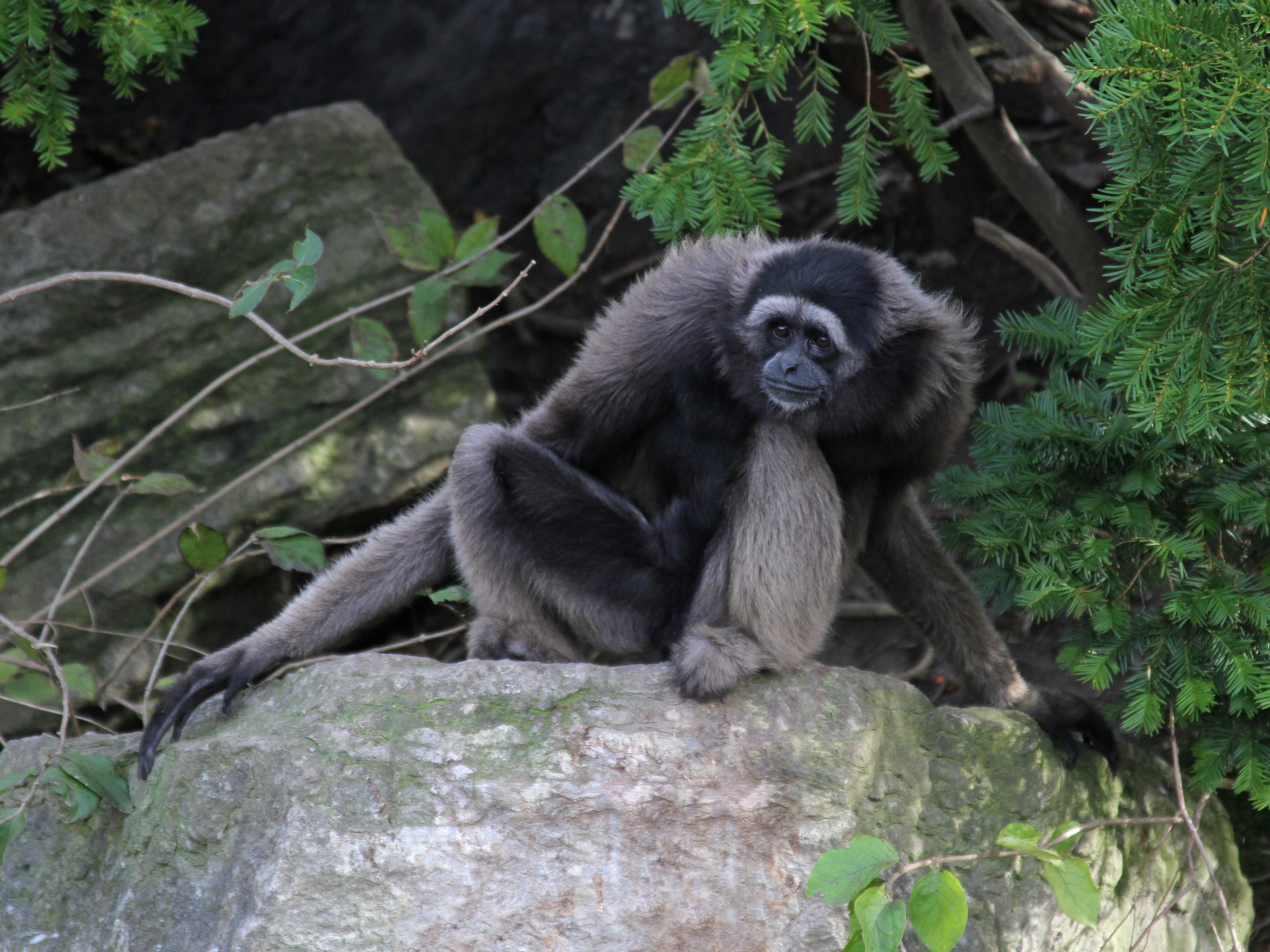 Mueller's Gibbon at the Cincinnati Zoo and Botanical Garden